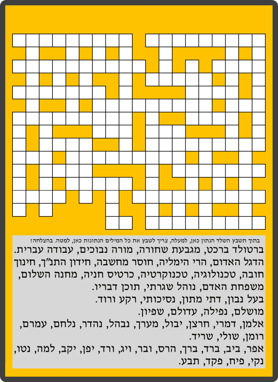 crosswords schelet